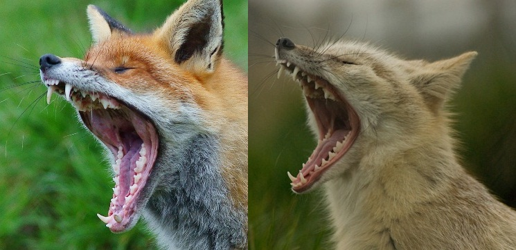 Red and corsac fox dentition comparison